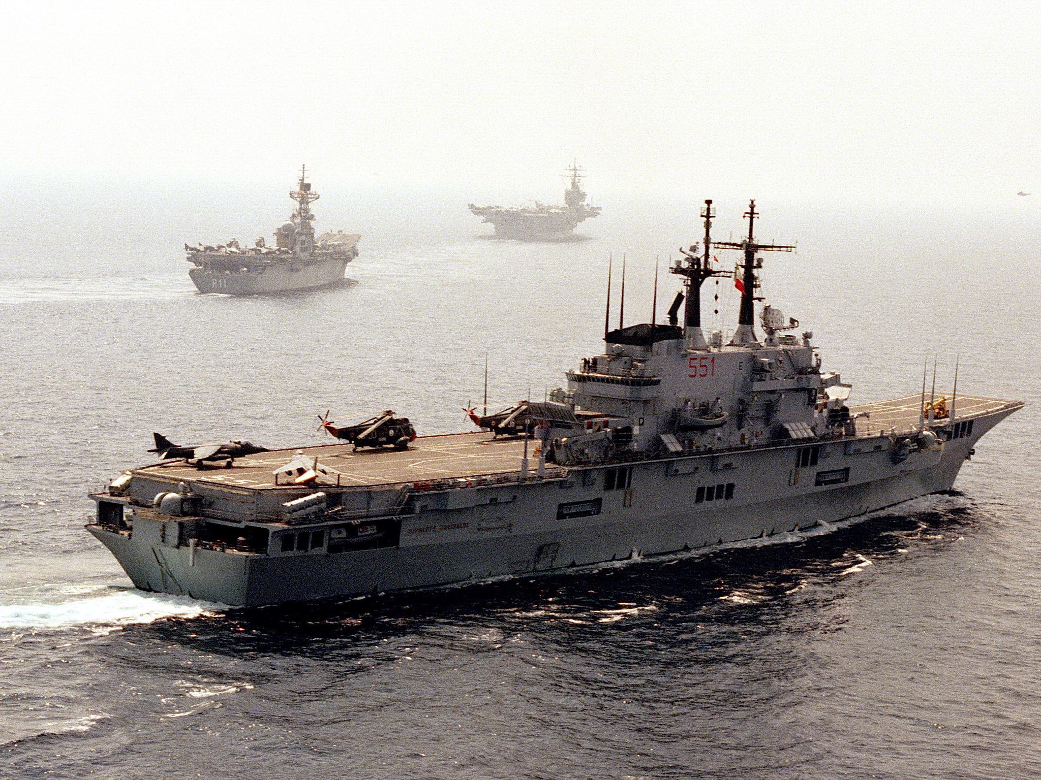 DRAGON HAMMER `90 A starboard bow view of the Italian light aircraft carrier ITS GIUSEPPE GARIBALDI (C-551) underway during the NATO Southern Region exercise DRAGON HAMMER '90. Underway in the background are the Spanish aircraft carrier SPS PRINCIPE DE ASTURIAS (R-11), left, and the nuclear-powered aircraft carrier USS DWIGHT D. EISENHOWER (CVN 69).